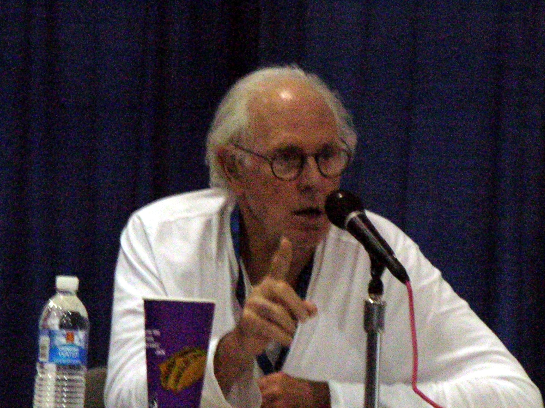 Bruce Dern at Super-Con 2009 in San Jose, California.